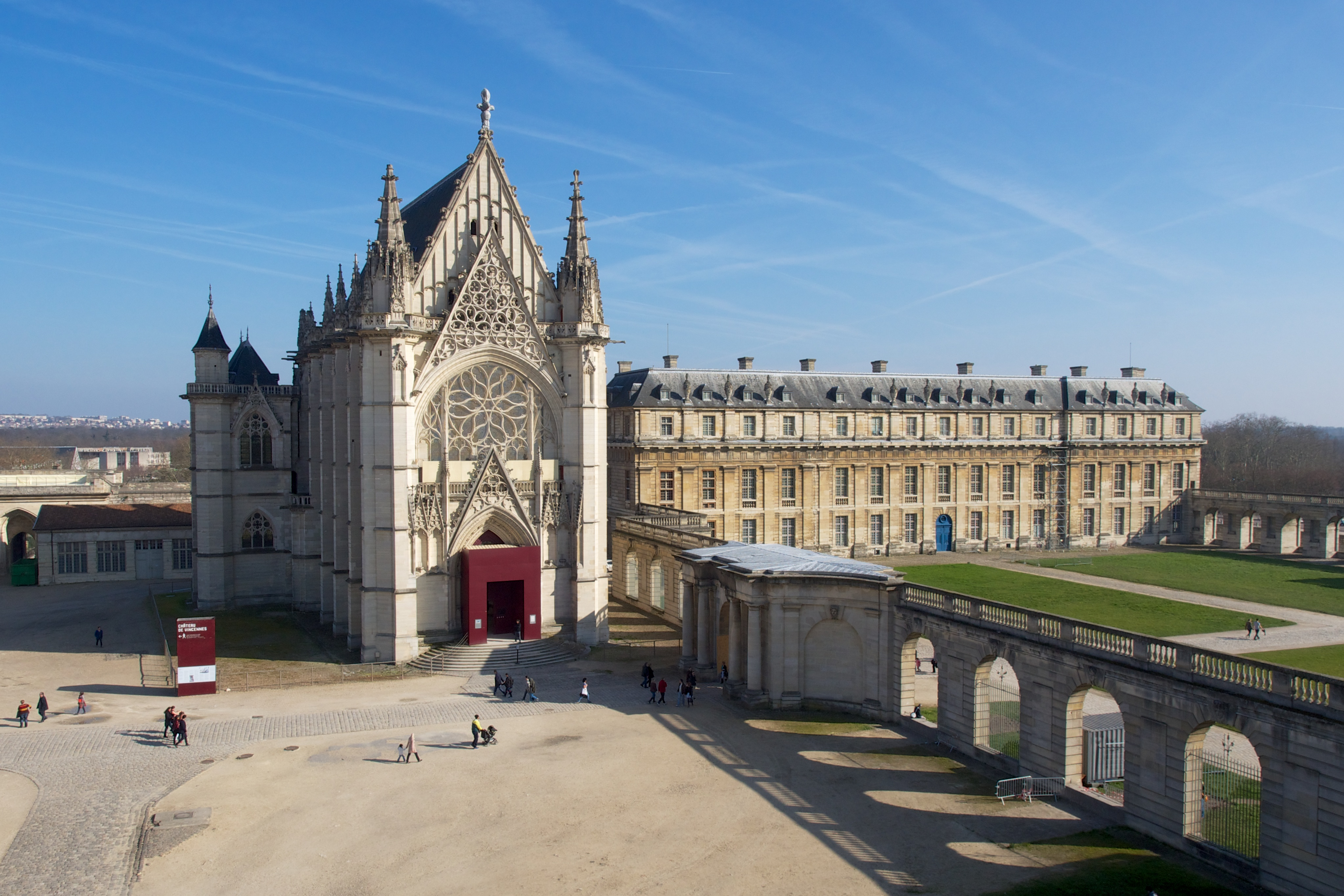 Chapel of the Château de Vincennes (build by Philibert Delorme) seen from the keep, the queen's pavilion on the right, inbetween an isolated range, realized by Louis Le Vau.